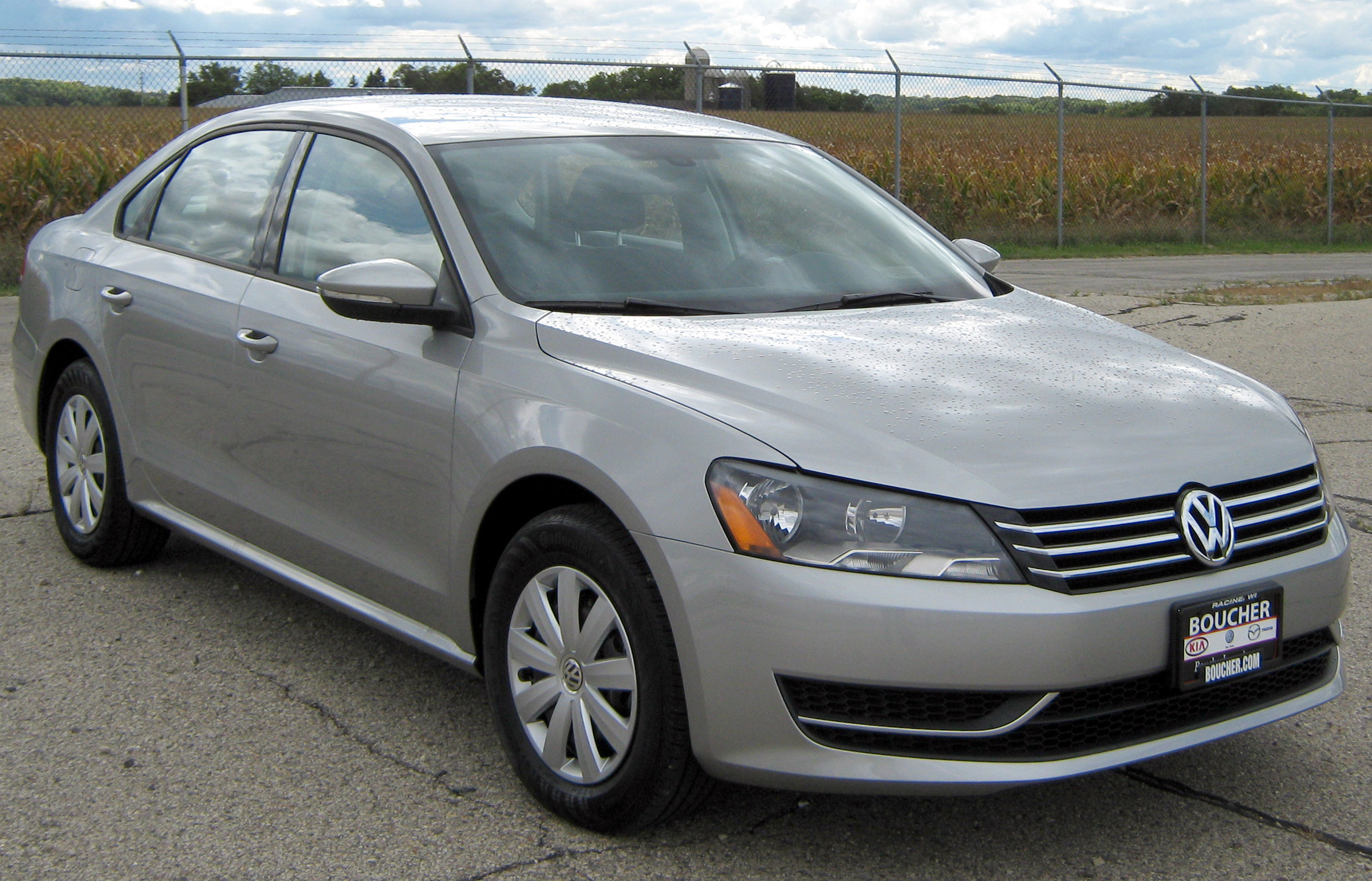 2012 Volkswagen Passat photographed in USA.